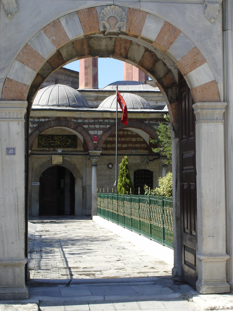 Istanbul - A door in the ancient ottoman cemetery in Eyüp. Picture by: Giovanni Dall'Orto, May 30 2006.